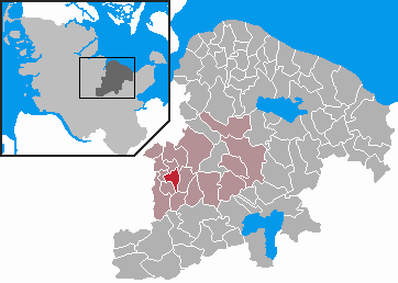 This map shows the area of the Gemeinde (municipality) Barmissen in the Kreis (district) Plön, Schleswig-Holstein, Germany.